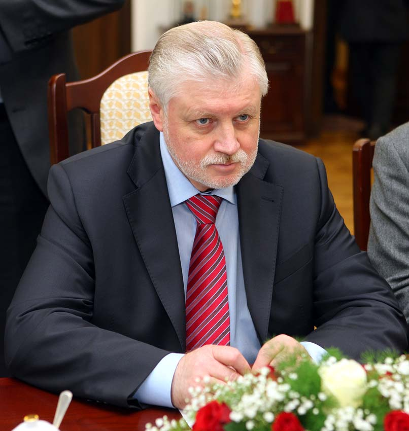 Chairman of Russia's Federation Council Sergey Mironov on a visit to Poland in 2010.